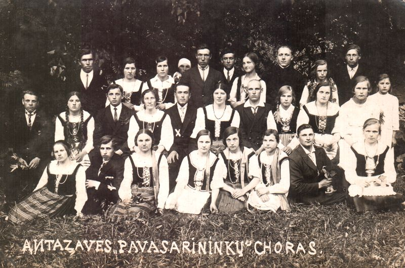 Pavasaris choir of Antazavė at an event in Dusetos